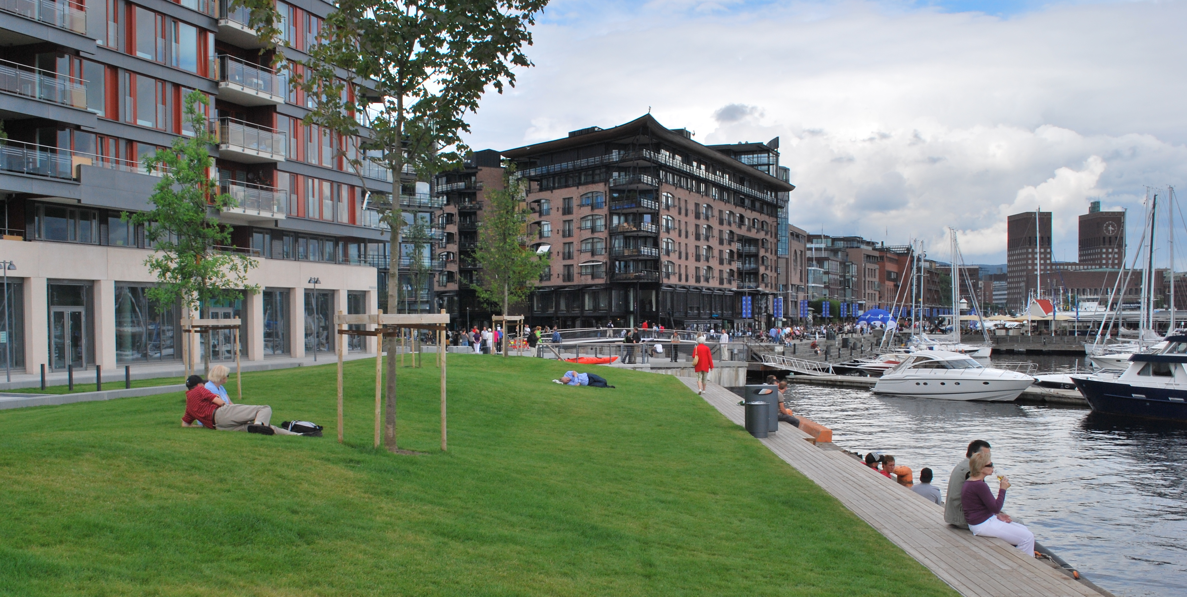 First part of new park at Tjuvholmen, Oslo, August 2008